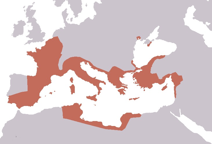 Map of the Roman Republic in 40 BC after the recent conquests of Julius Caesar.